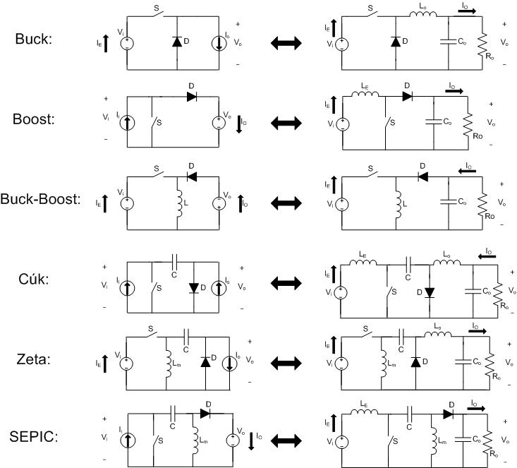 DC/DC Converters